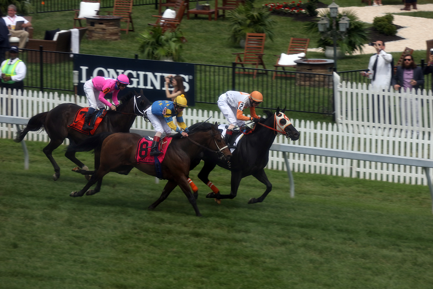 Ben's Cat wins the 2016 Jim McKay Turf Sprint, his fourth consecutive victory in the race.